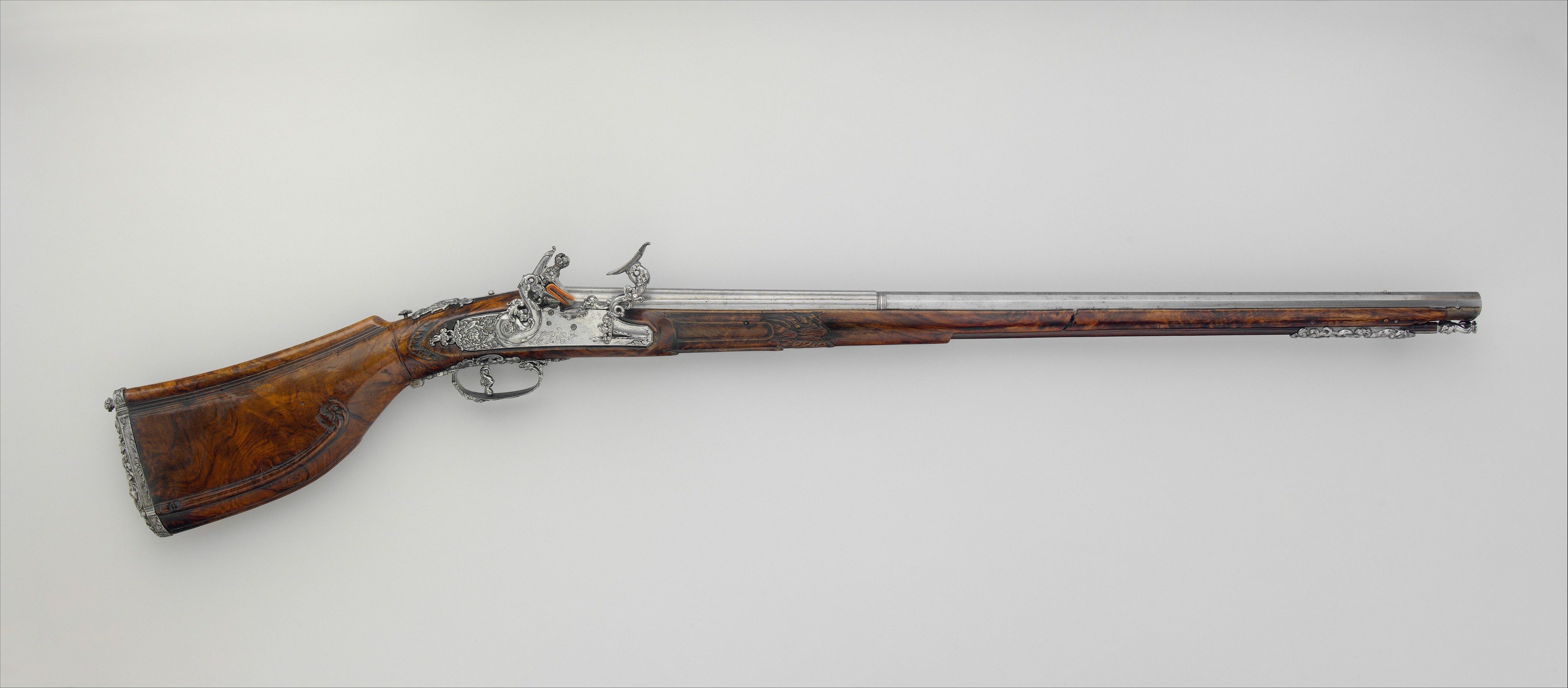 Italian, Brescia; Carbine; Firearms